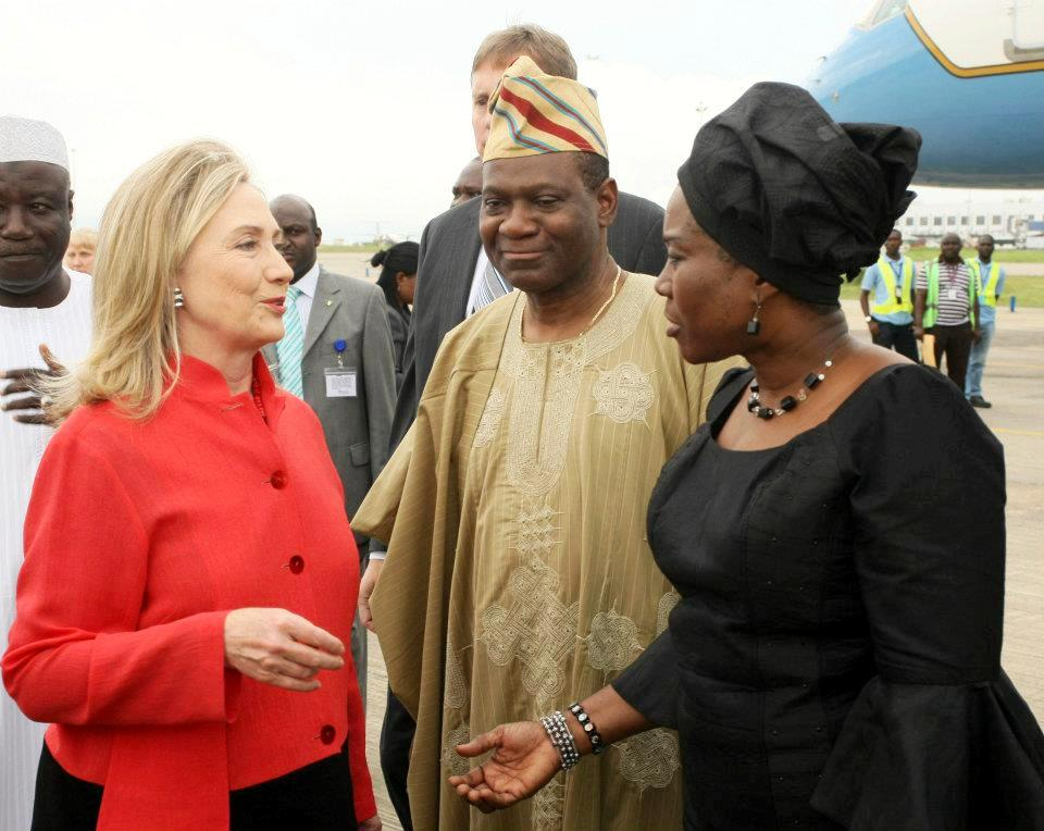 U.S. Secretary of State Hillary Rodham Clinton is greeted by Nigerian Foreign Minister Olugbenga Ashiru, center, and Nigerian Minister of State for Foreign Affairs I Viola Onwuliri, right, upon her arrival to Abuja, Nigeria, on August 9, 2012. [State Department photo/ Public Domain]